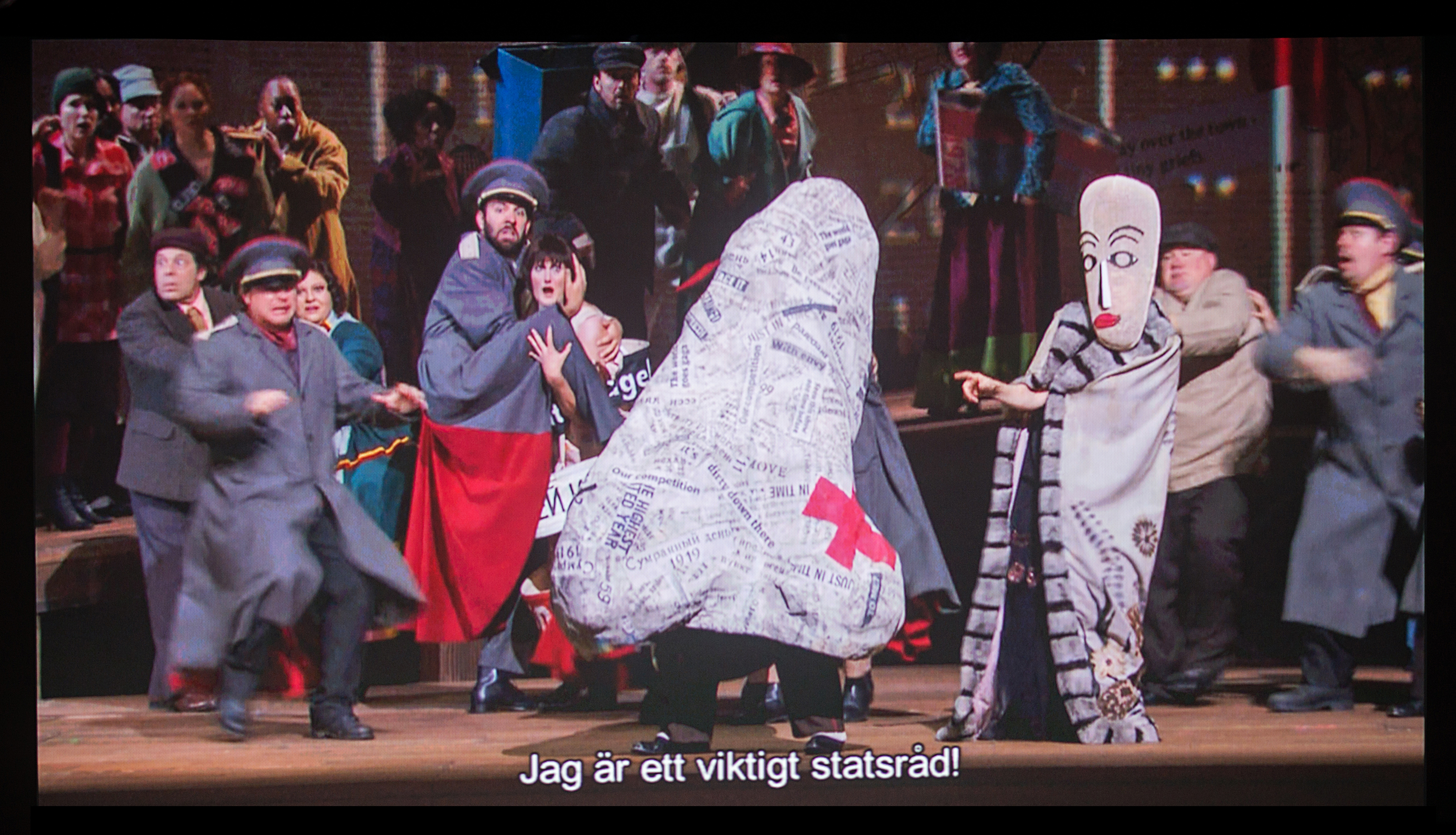 The Nose at The Metropolitan Opera in New York October 2013